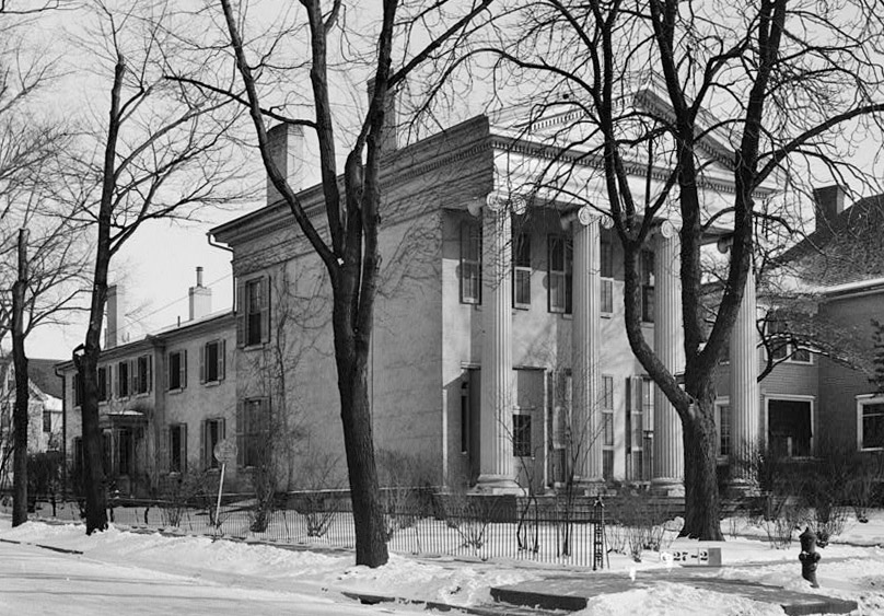 Judge Robert S. Wilson House, front and side facades — in Ann Arbor, Michigan. Image (1934): HABS—Historic American Buildings Survey of Michigan.